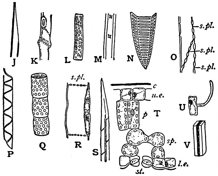 Examples of the differentiation of the tissue of plants. J, End of hydroid of the Moss Mnium, showing particularly thin oblique end wall. No pits. K, Optical section of two adjacent leptoids of the Moss Polytrichum juniperinum. The leptoids are living and nucleated. They bulge in the neighbourhood of the very thin cross-wall. Note resemblance to H and R. L, Optical section of cell of parenchyma in the same moss. Embedded in the protoplasm are a number of starch grains. M, Part of elongated stereid of a Moss. Note thick walls and oblique slit-like pits with opposite inclination on the two sides of the cell seen in surface view. N, One side of the end of hydroid (tracheid) of a Pteridophyte (fern), with scalariform pits. O, Optical section of two adjacent leptoids (sieve-tube segments) of Pteridophyte, with sieve plates (s. pl.) on oblique end-wall and side-walls. P, Part of spiral hydroid (tracheid) of Phanerogam (Flowering Plant). Q, Three segments of a “pitted” vessel of Phanerogam. R, Optical section of leptoid (sieve-tube segment) of Phanerogam, with two proteid (companion) cells. s. pl., sieve-plate. S, Optical section of part of thick-walled stereid of Phanerogam, with almost obliterated cavity and narrow slit-like oblique pits. T, Part of vertical section through blade of typical leaf of Phanerogam. u.e., Upper epidermal cells, with (c) cuticle. (p) Assimilating (palisade) cell. sp., Assimilating (spongy) cells with large lacunae. l.e., Lower epidermis, with st., stoma U, Absorbing cell, with process (root-hair) from piliferous layer of root of Phanerogam. V, Endodermal cell of Phanerogam, with suberized central band on radial and transverse walls.